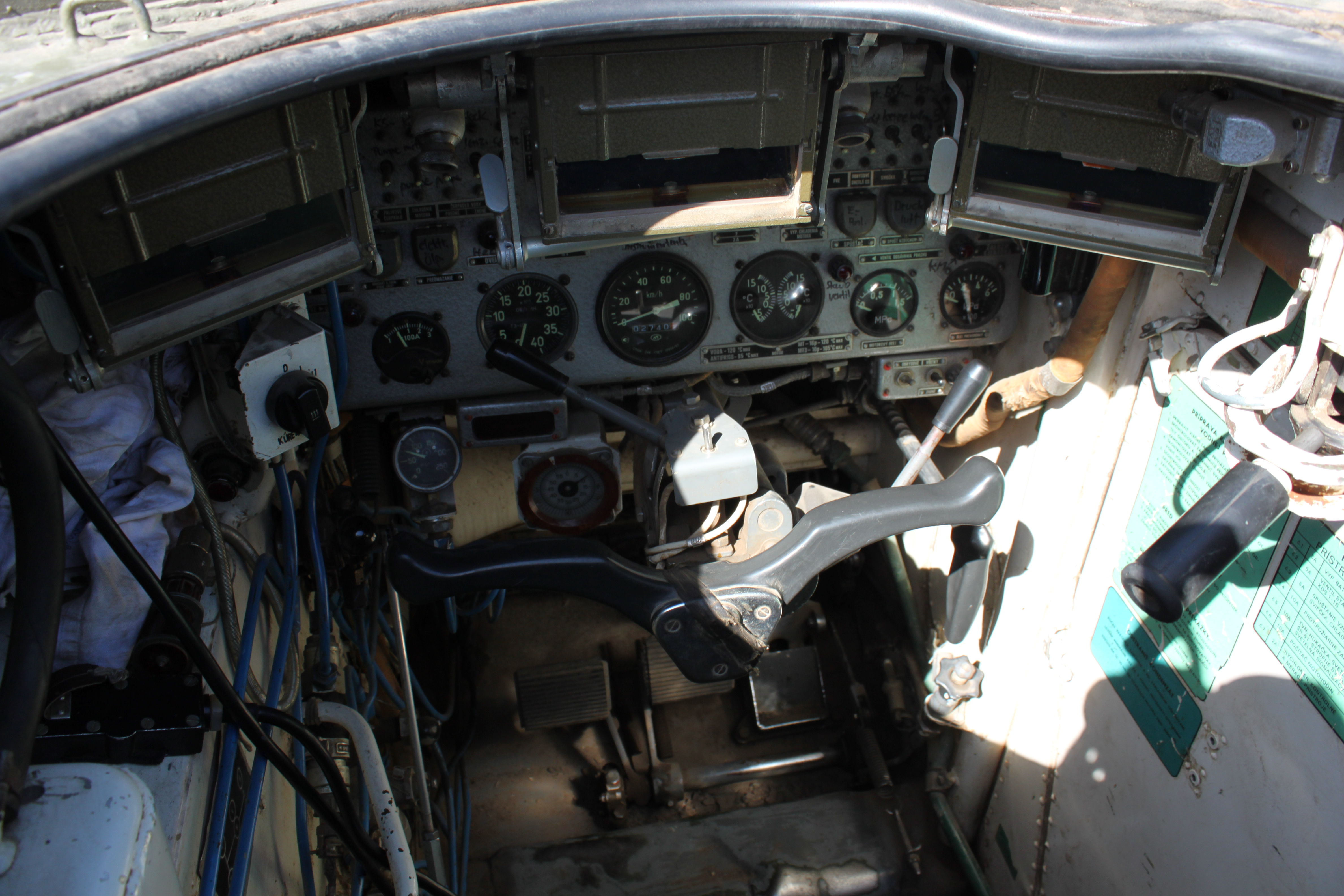 BMP-1 unknown version, was in service from? in Thiendorf